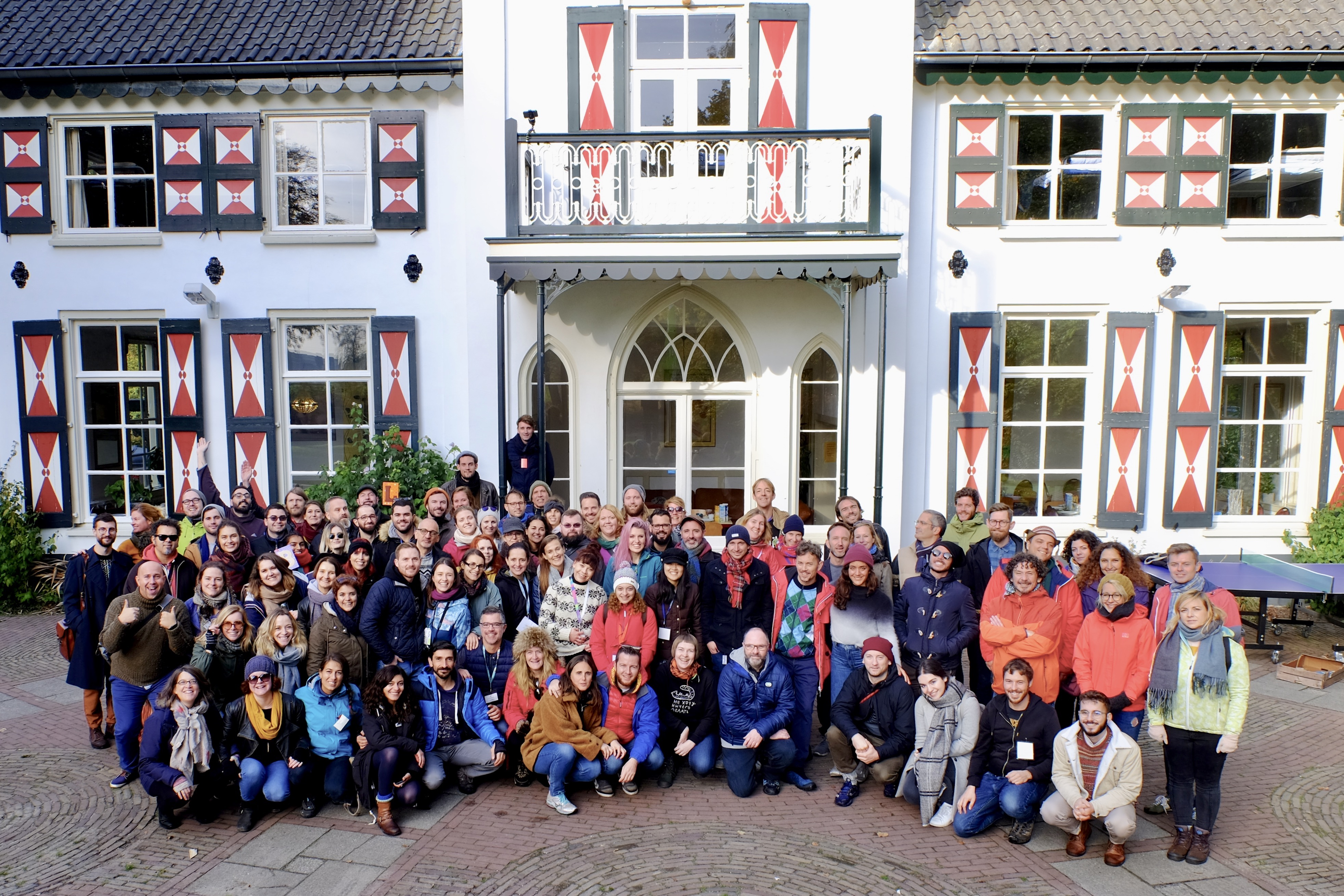 Weekend for Spotted by Locals bloggers in 2018